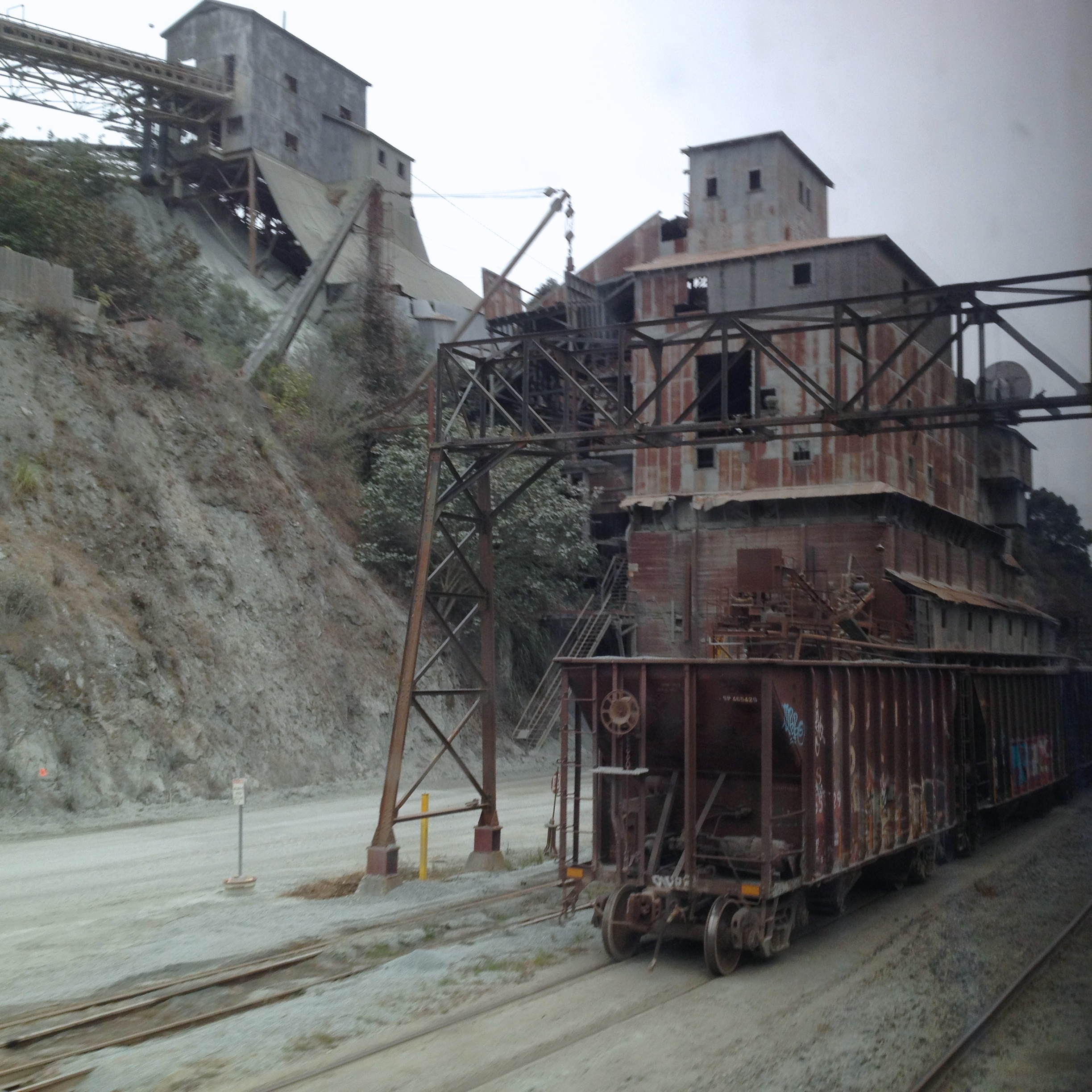 Graniterock quarry in Aromas, California.